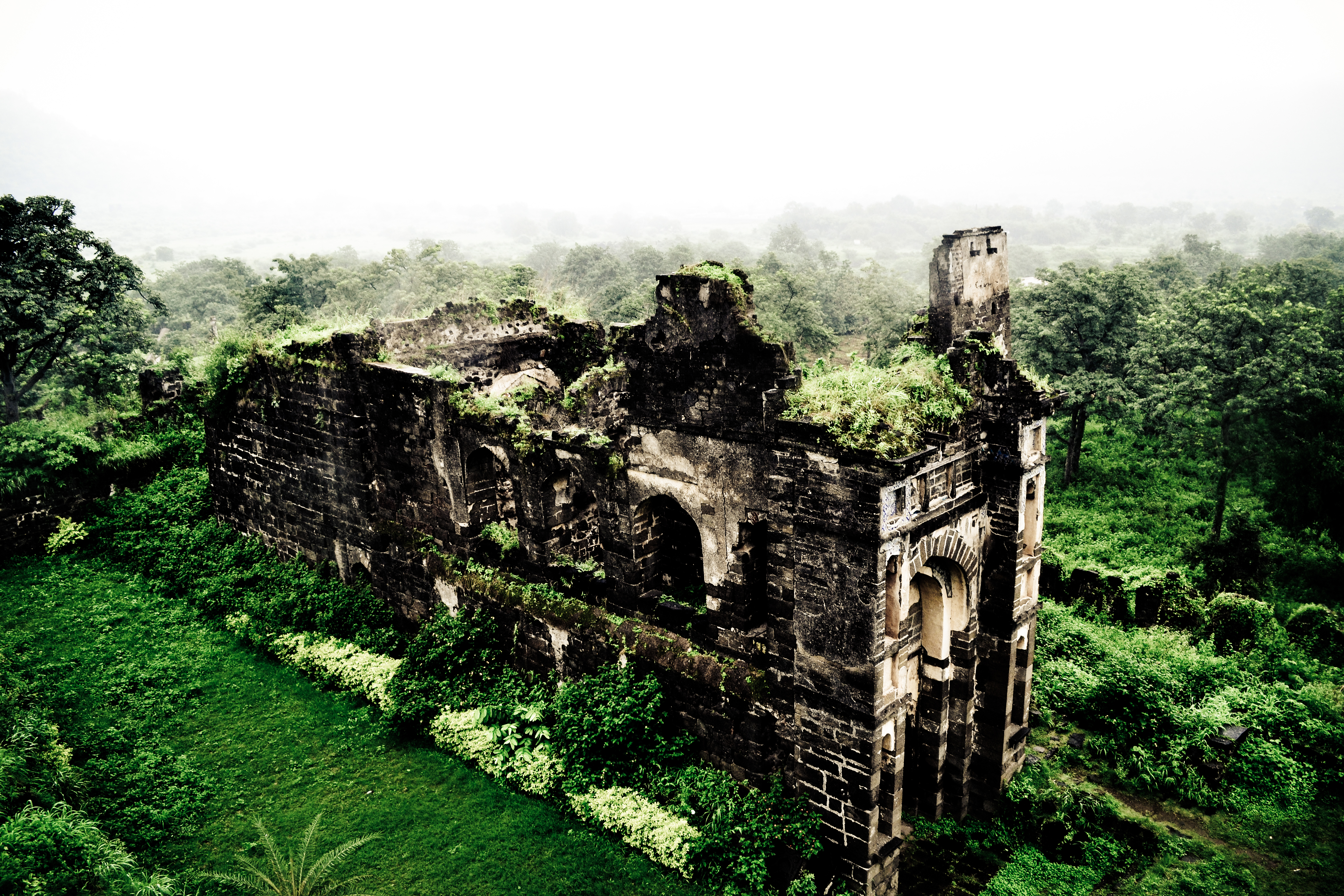 Daulatabad Fort & Monument therein (i.e. Chand Minar), located in Aurangabad district of Maharashtra, India.